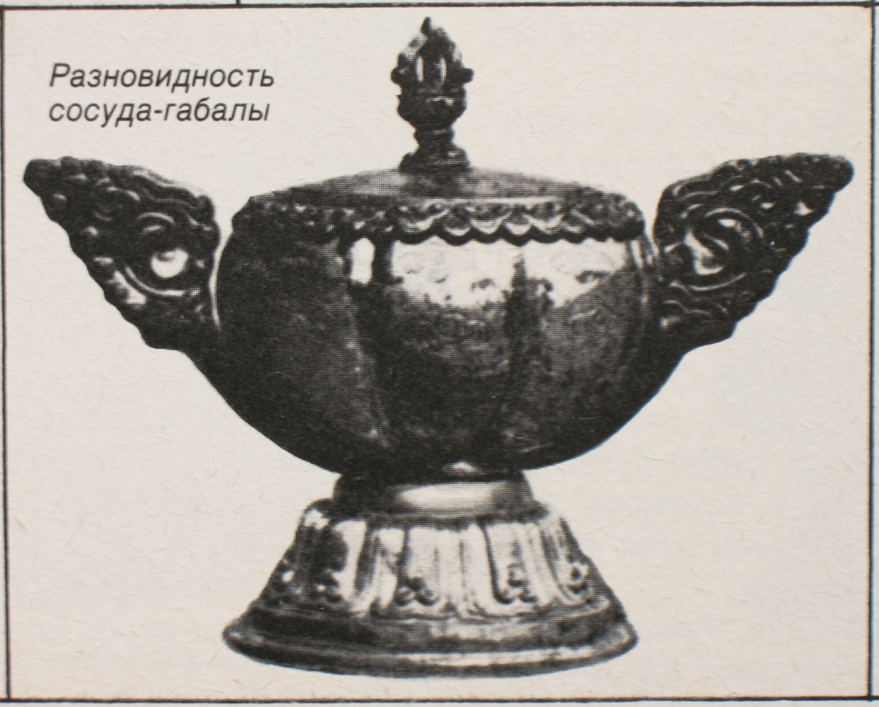 Gombojab Tsybikov photo in Tibet. Фотография сделана во Внутренней Монголии либо Тибете скрытой камерой через прорезь в молитвенной мельнице.